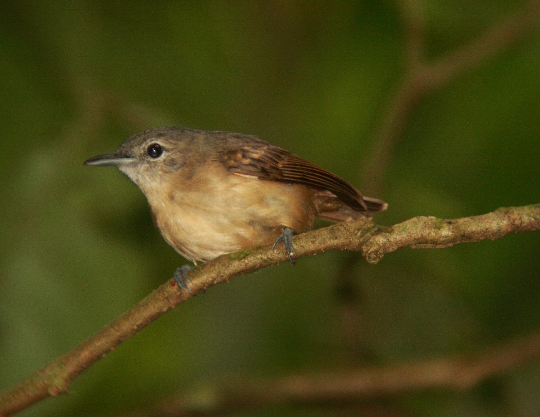 Myrmotherula axillaris